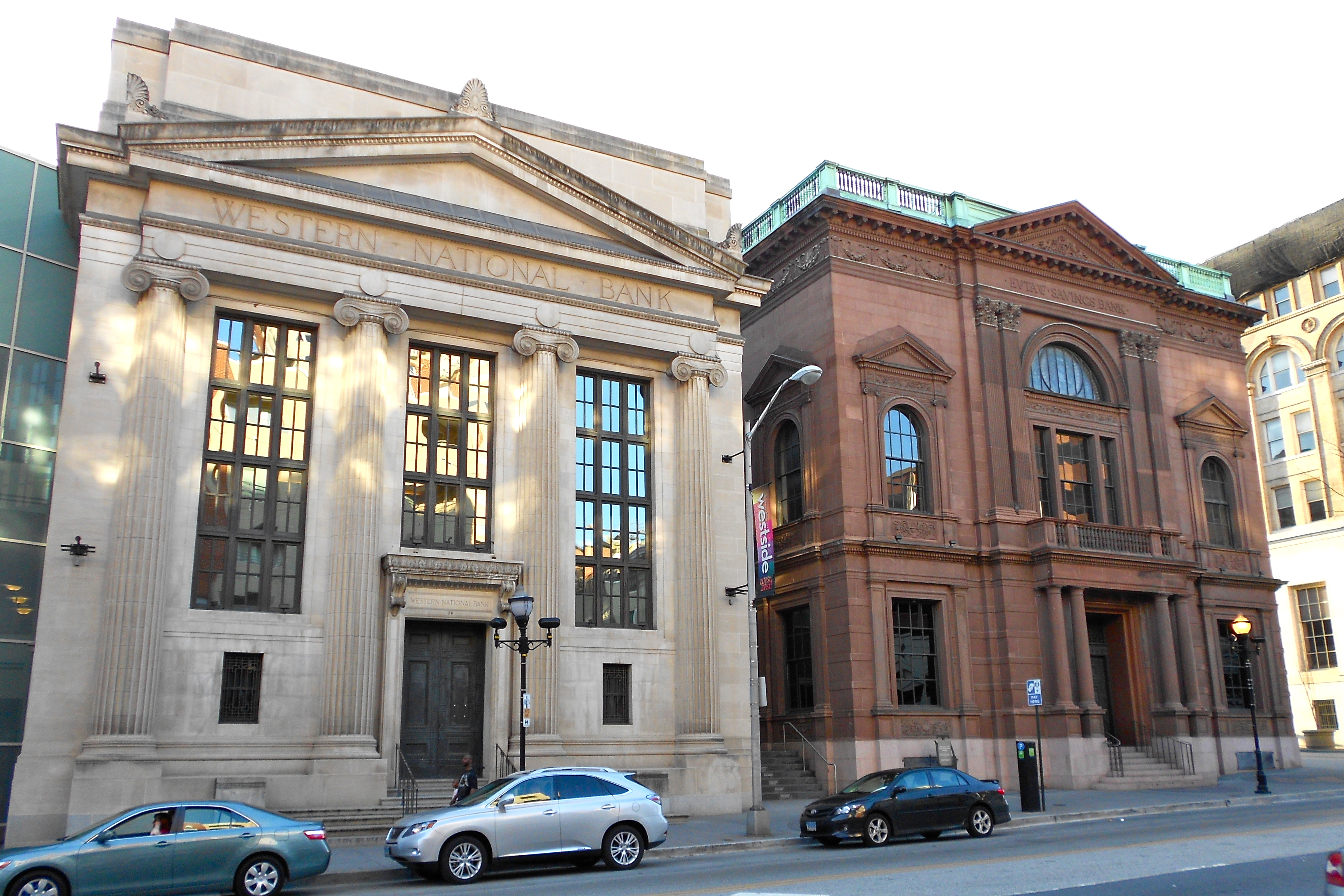 Baltimore Grand on the NRHP since January 14, 2000. At 401 W. Fayette St. in central Baltimore, Maryland. Site includes both bank buildings.